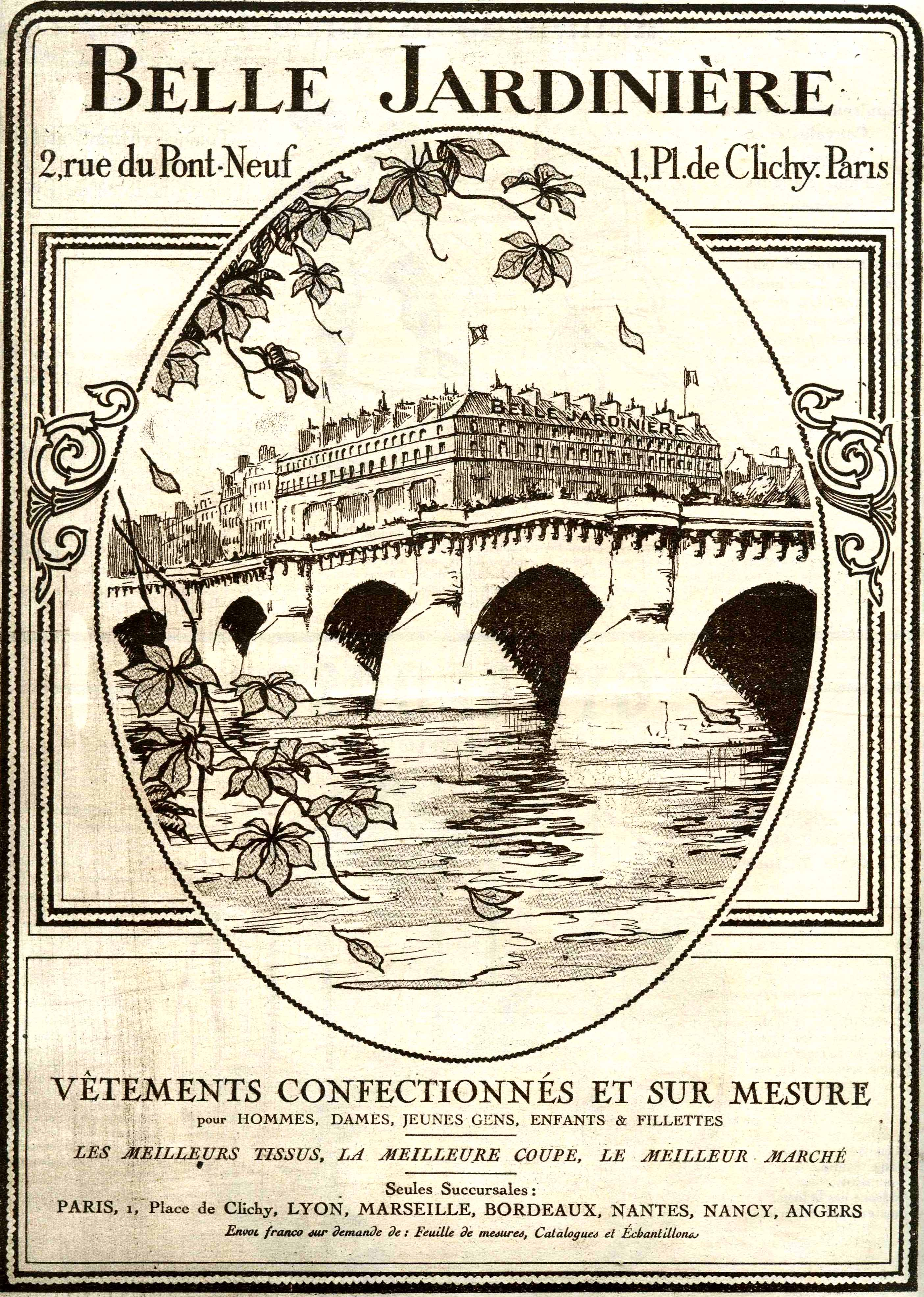 Advertisement for Belle Jardinière (store in Paris)